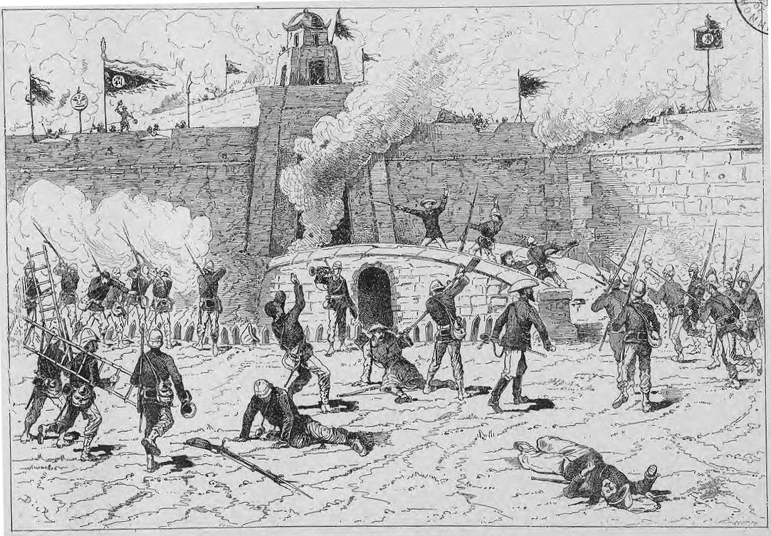 Commander Rivière enters the town of Nam Dinh.